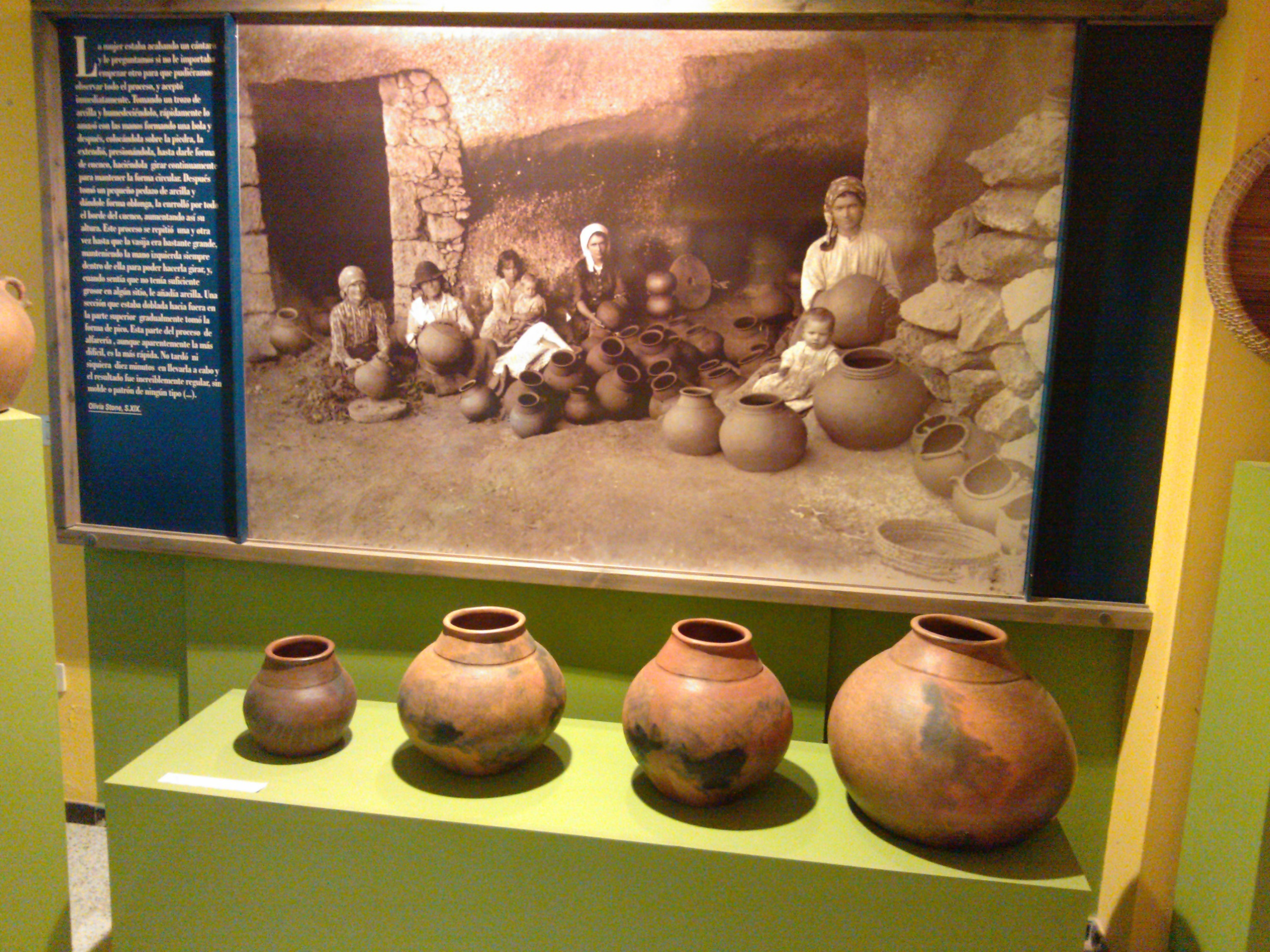 In 1999 opened the Museum Casa-Alfar name in the troglodytic complex of his hometown. The set of facilities, originally dependent on the Cabildo de Gran Canaria through the FEDAC (Foundation for ethnography and the development of the Canarian handicrafts), is managed locally by the ALUD (Association of artisans of the traditional pottery of La Atalaya de Santa Brígida). In addition to the conservation of the Ecomuseum "Panchito Casa-Alfar", the Centre annex locero has a number of educational and documentary as well as a permanent workshop and a Museum (thematic Hall) in which ancient specimens can be seen and new services of the typical locera dishes: bernegales, braziers, fogueros, ganigos, burners, jugs for gofio, sahumadores, tinajas for nuts, roasters for grain, etc.